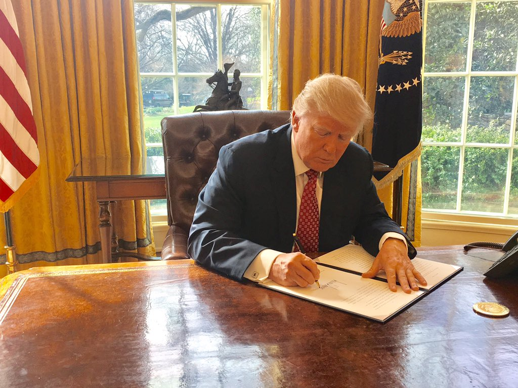 Trump signing Executive Order 13780.